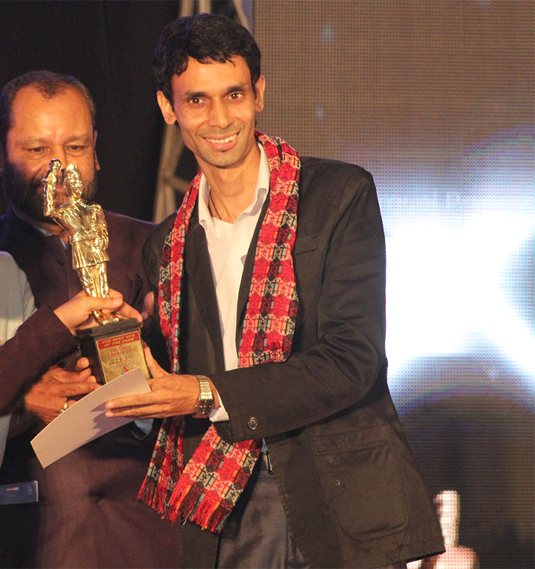 Receiving LG Cine Circle Award for Best Vfx of the Year 2017